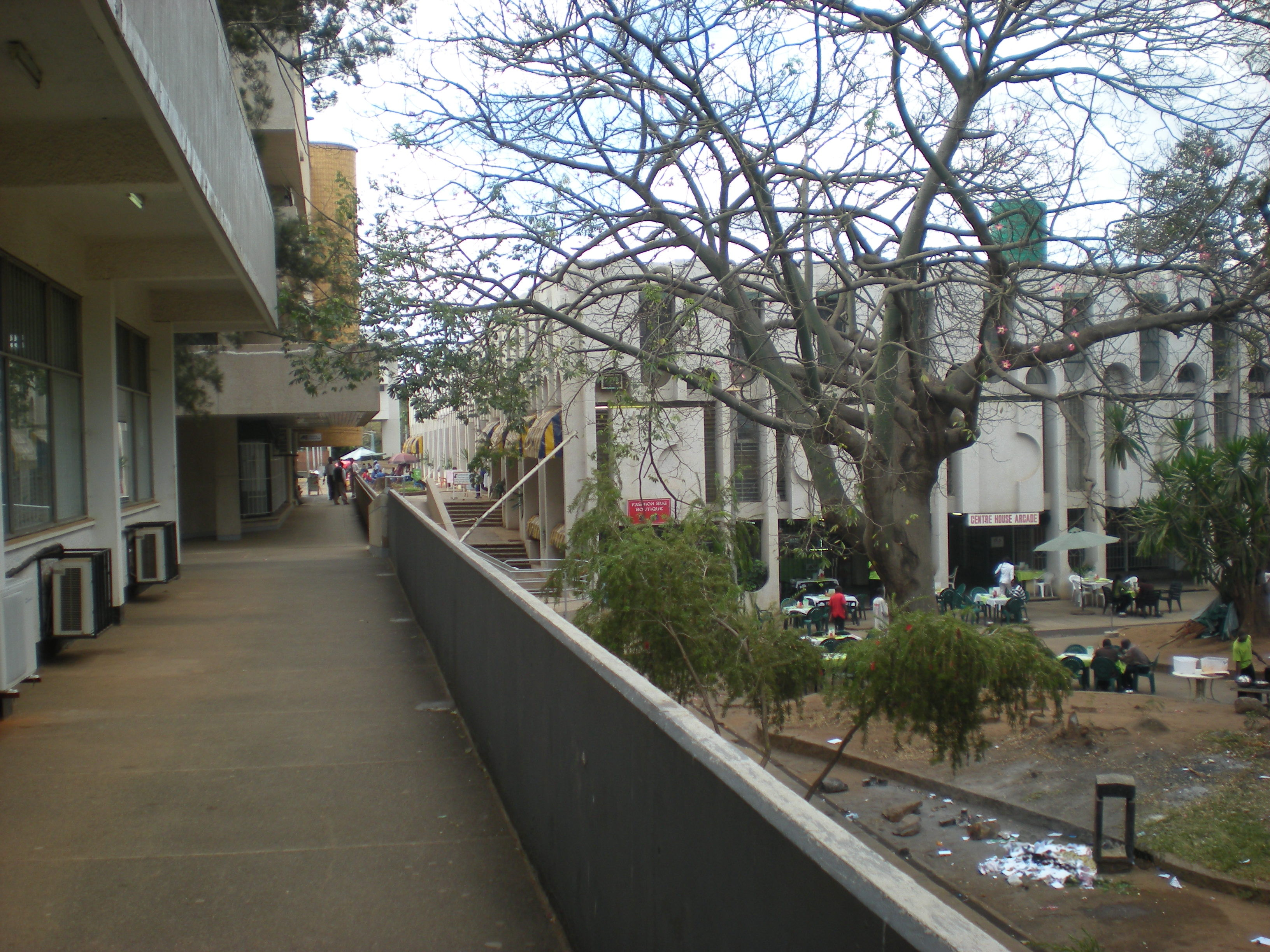 Centre House Arcade, Lilongwe City Centre